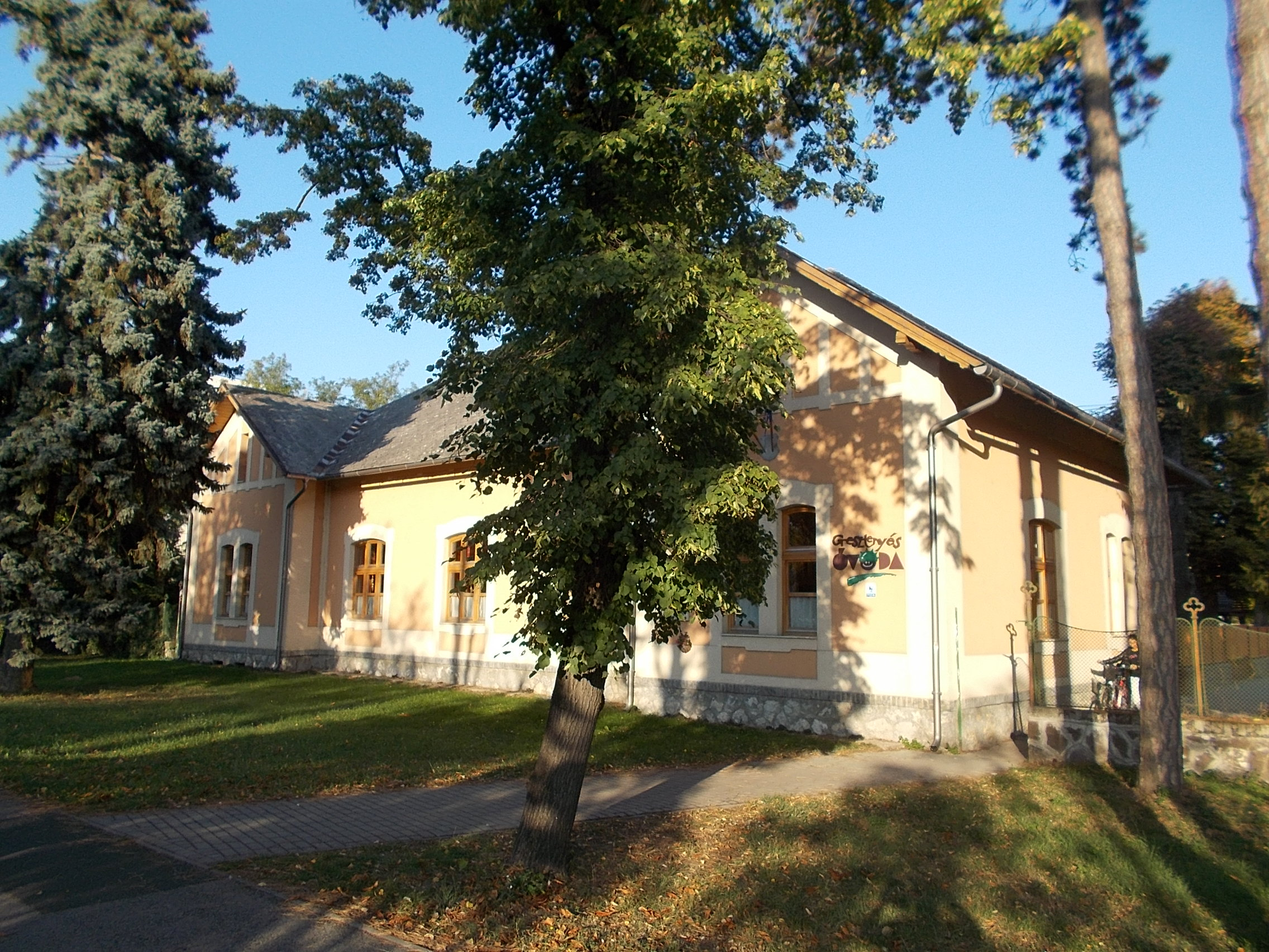 Former stud farm building. - 47 Igmándi Street, Komárom, Komárom-Esztergom County, Hungary.